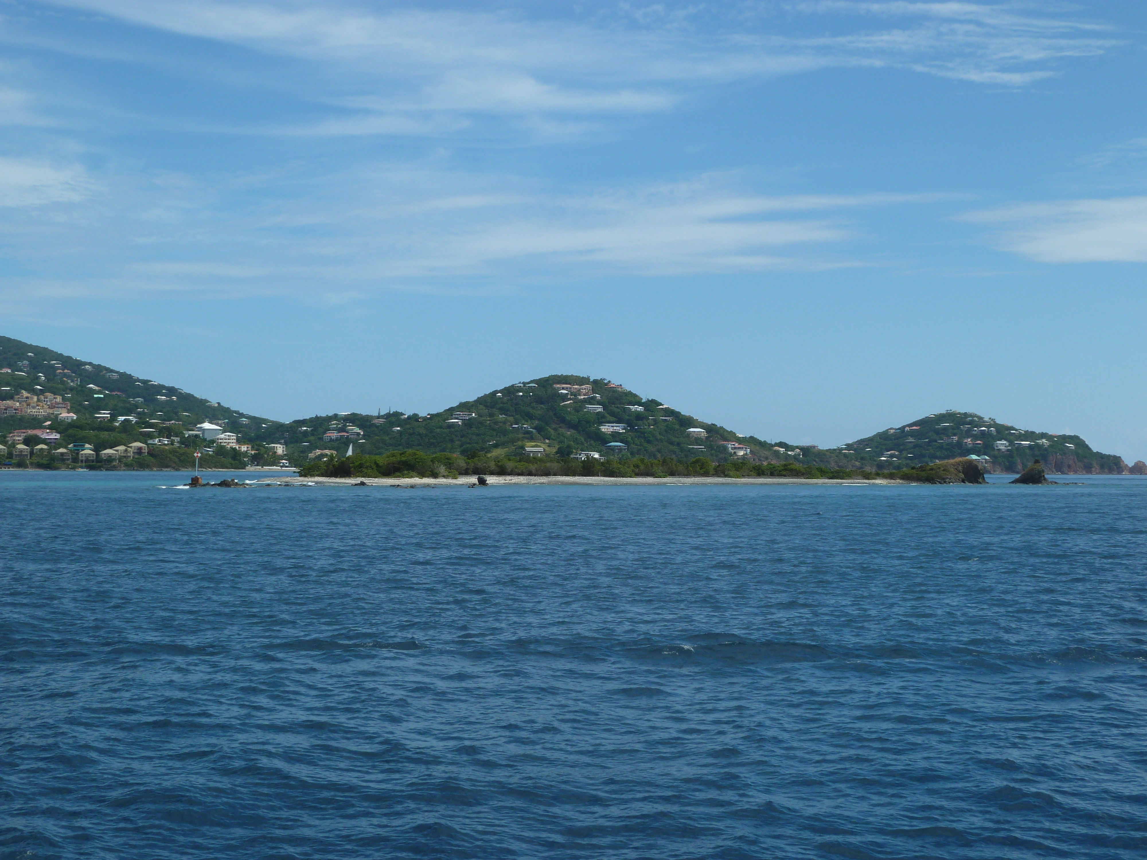 Steven Cay and St. John, USVI, Dec 2010.